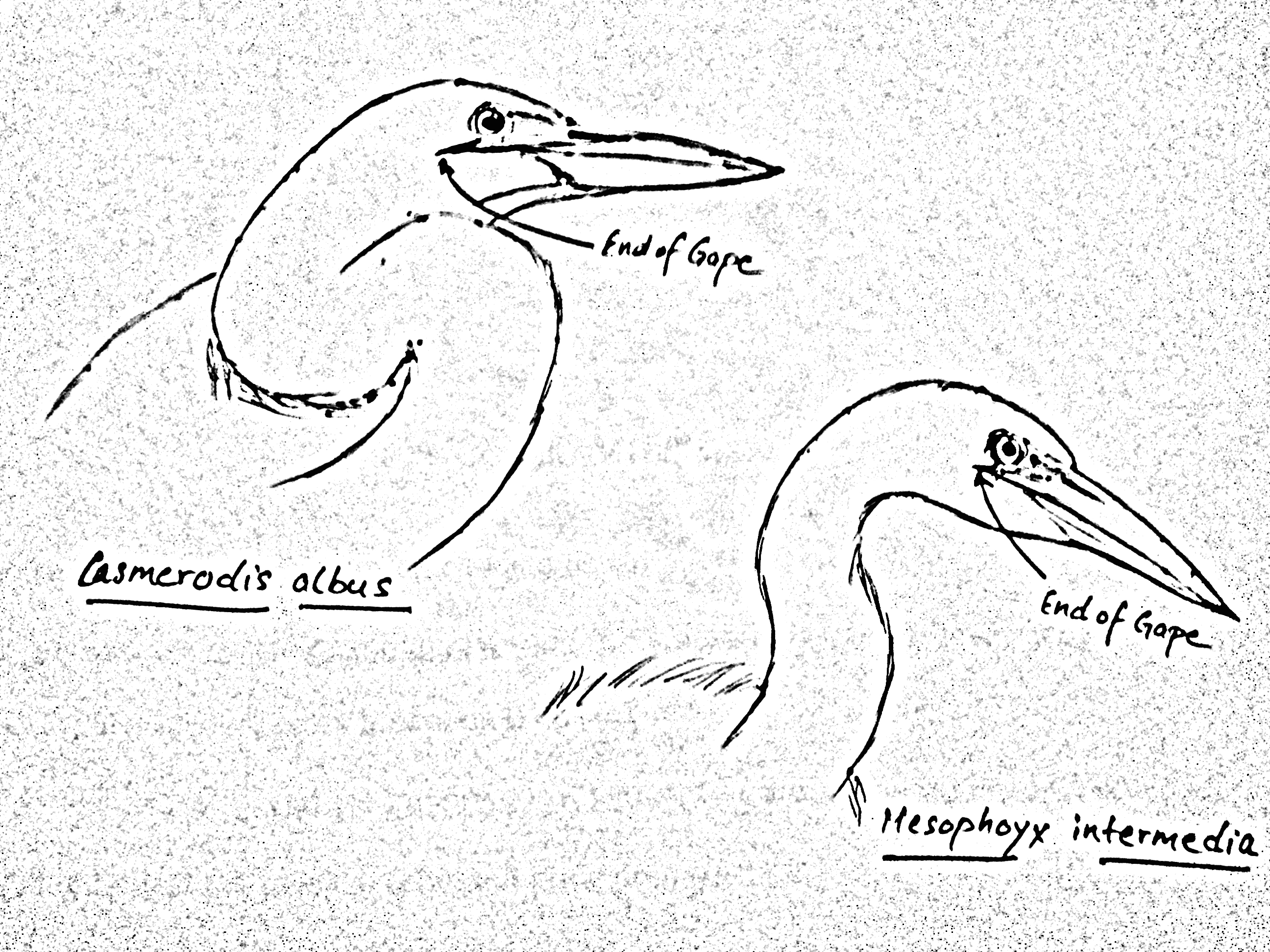 This is a rough sketch to differentiate between Great Egret and Intermediate Egret. Redrawn from photograph, link provided below.